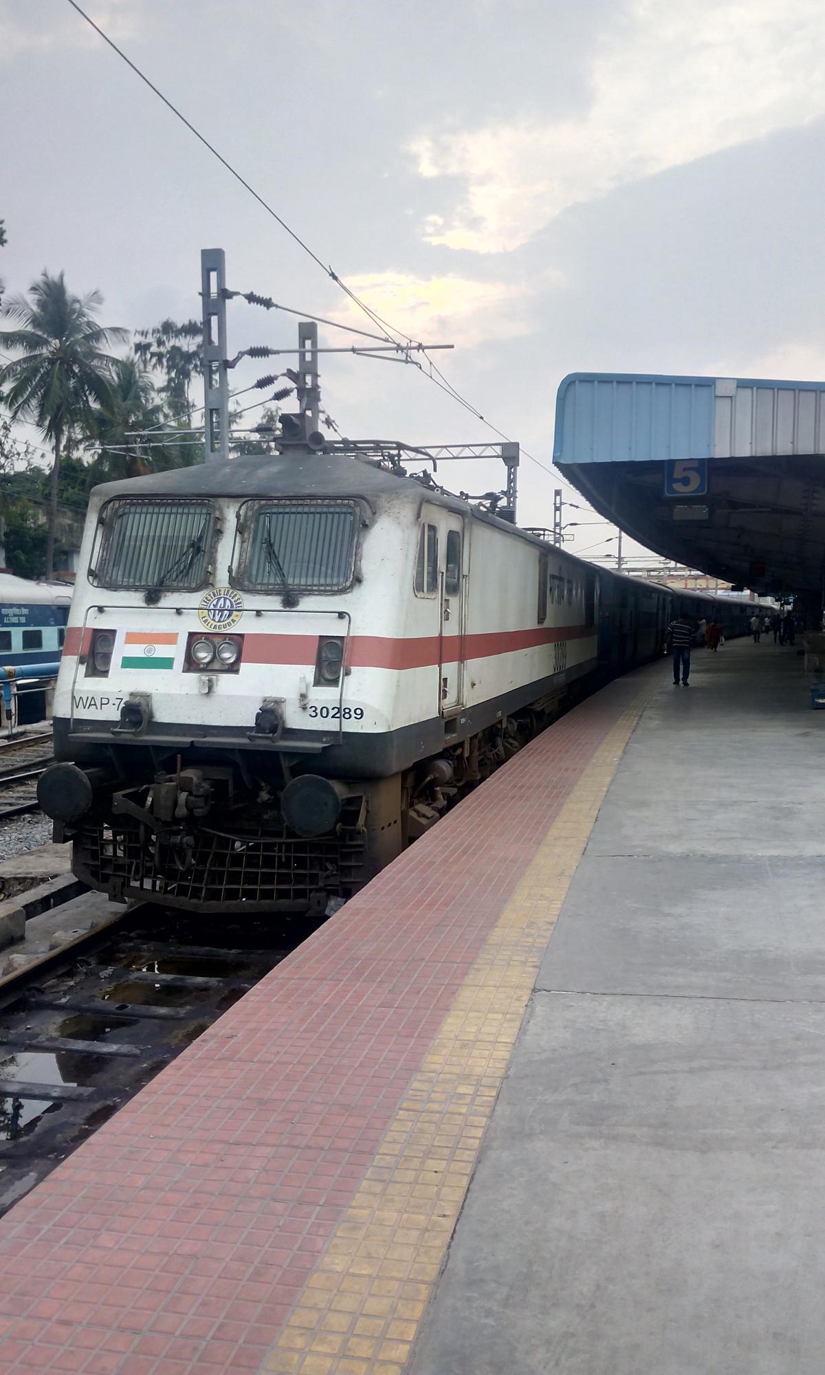 padmavati express with wap7